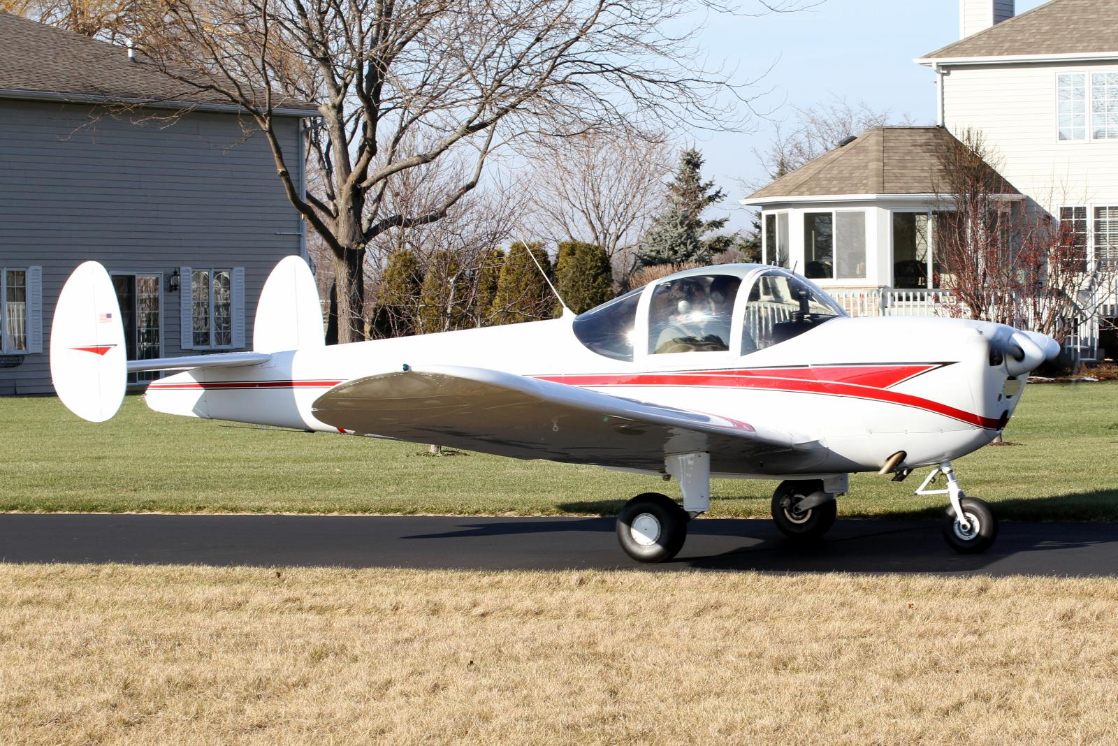 ALON A2 (N6503Q)